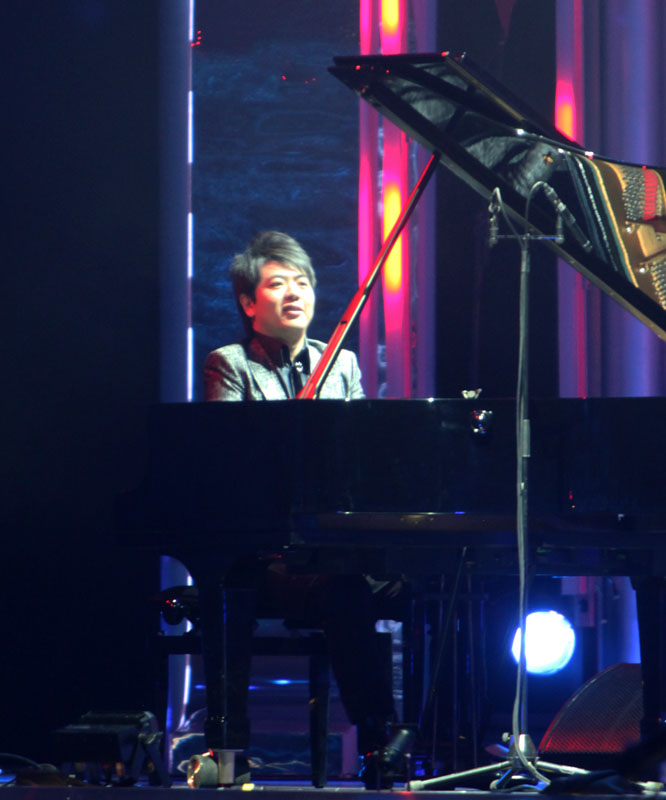 Lang Lang at The Nobel Peace Price Concert 2009